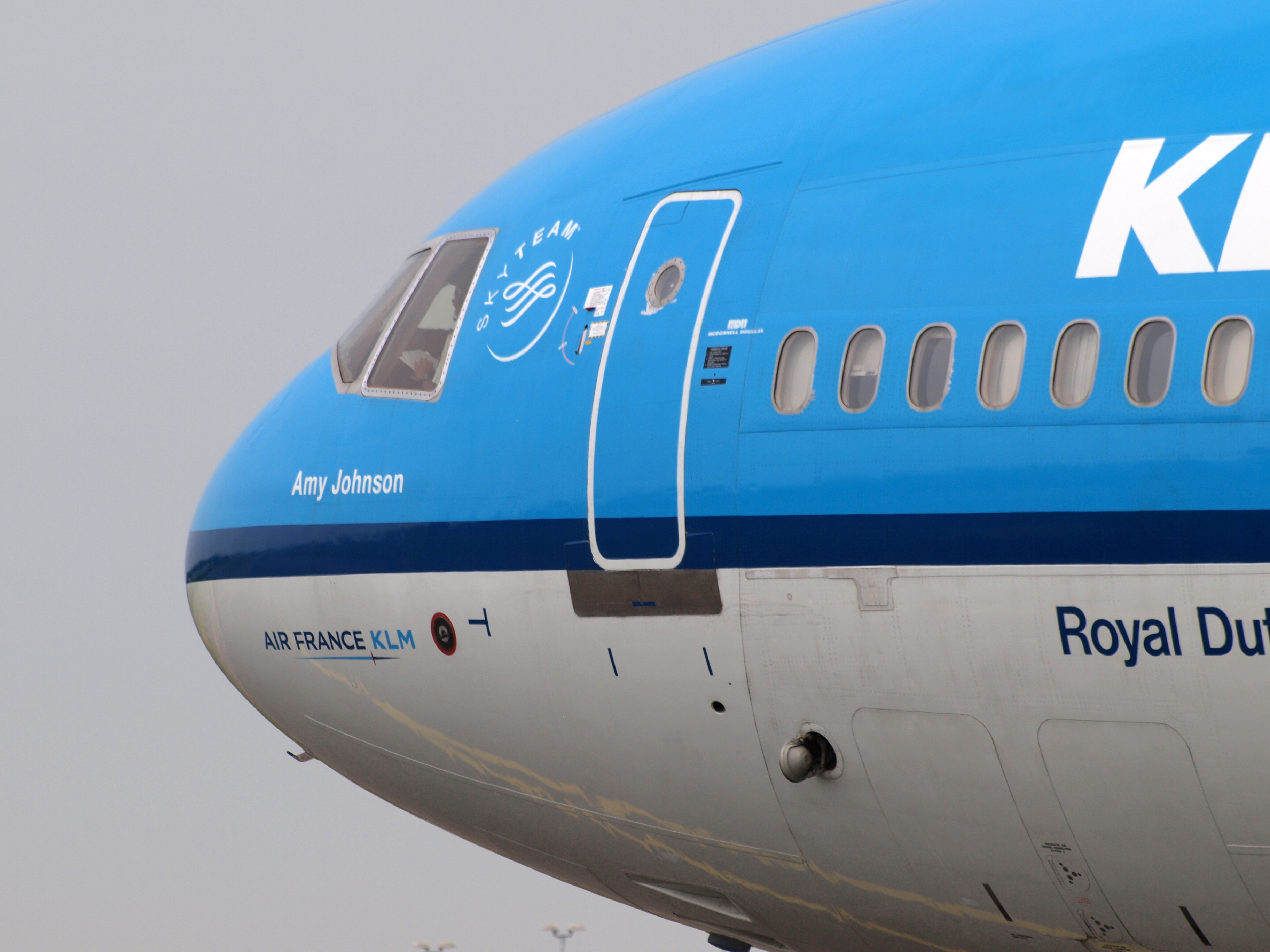 Photographed at Schiphol, Amsterdam airport, (IATA: AMS, ICAO: EHAM), the Netherlands.